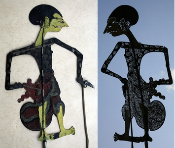 Repatmaja,wayang kulit figure from the wayang shadow play Serat Menak Sasak